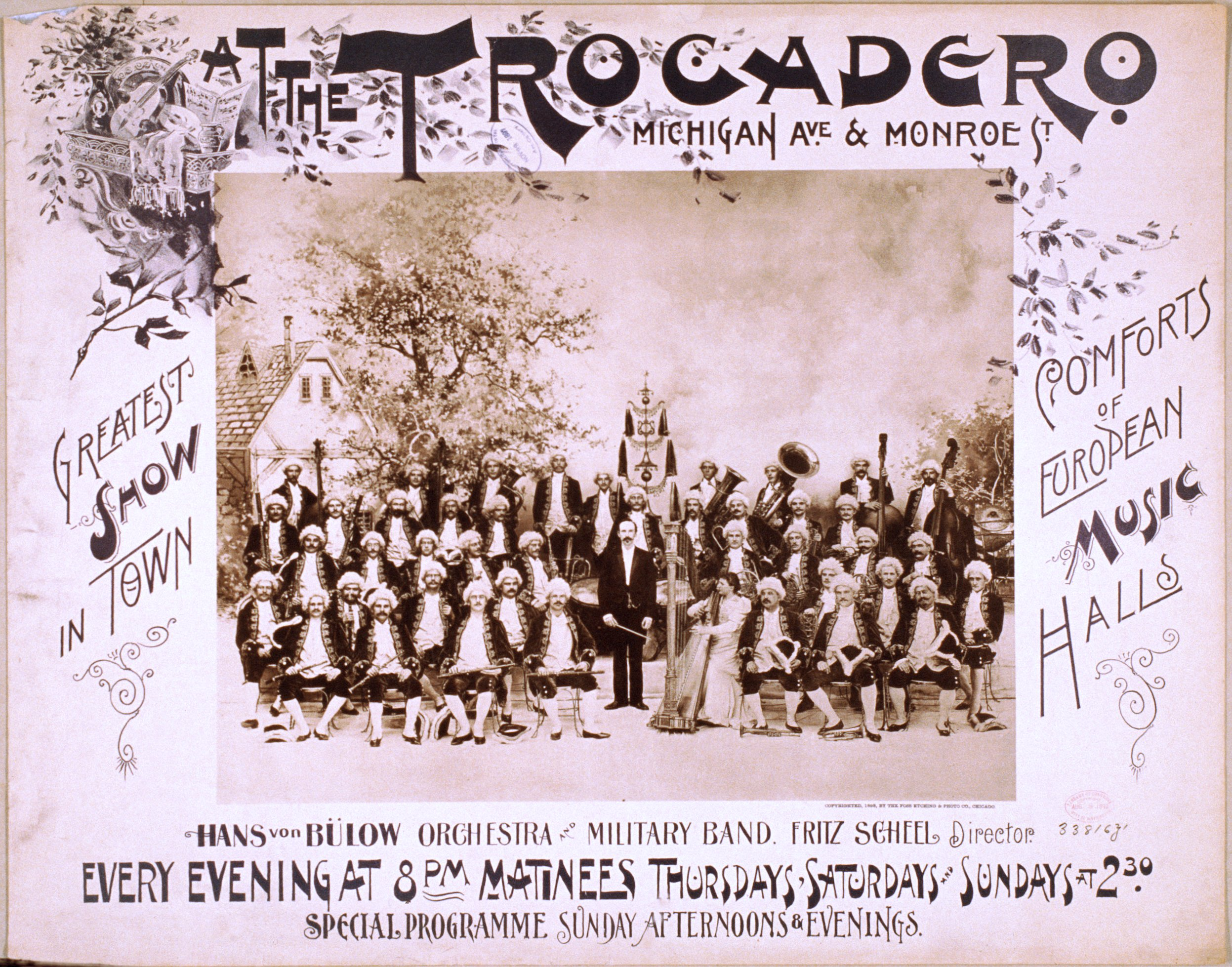 An image of the Hans von Bülow Orchestra and Military Band with conductor Fritz Scheel.